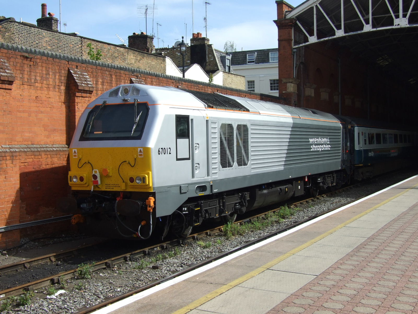 67012 at Marylebone in Wrexham and Shropshire livery with 4 inter-city coaches. This new open access operator is due to start services from Marylebone to Wrexham on 28 April.